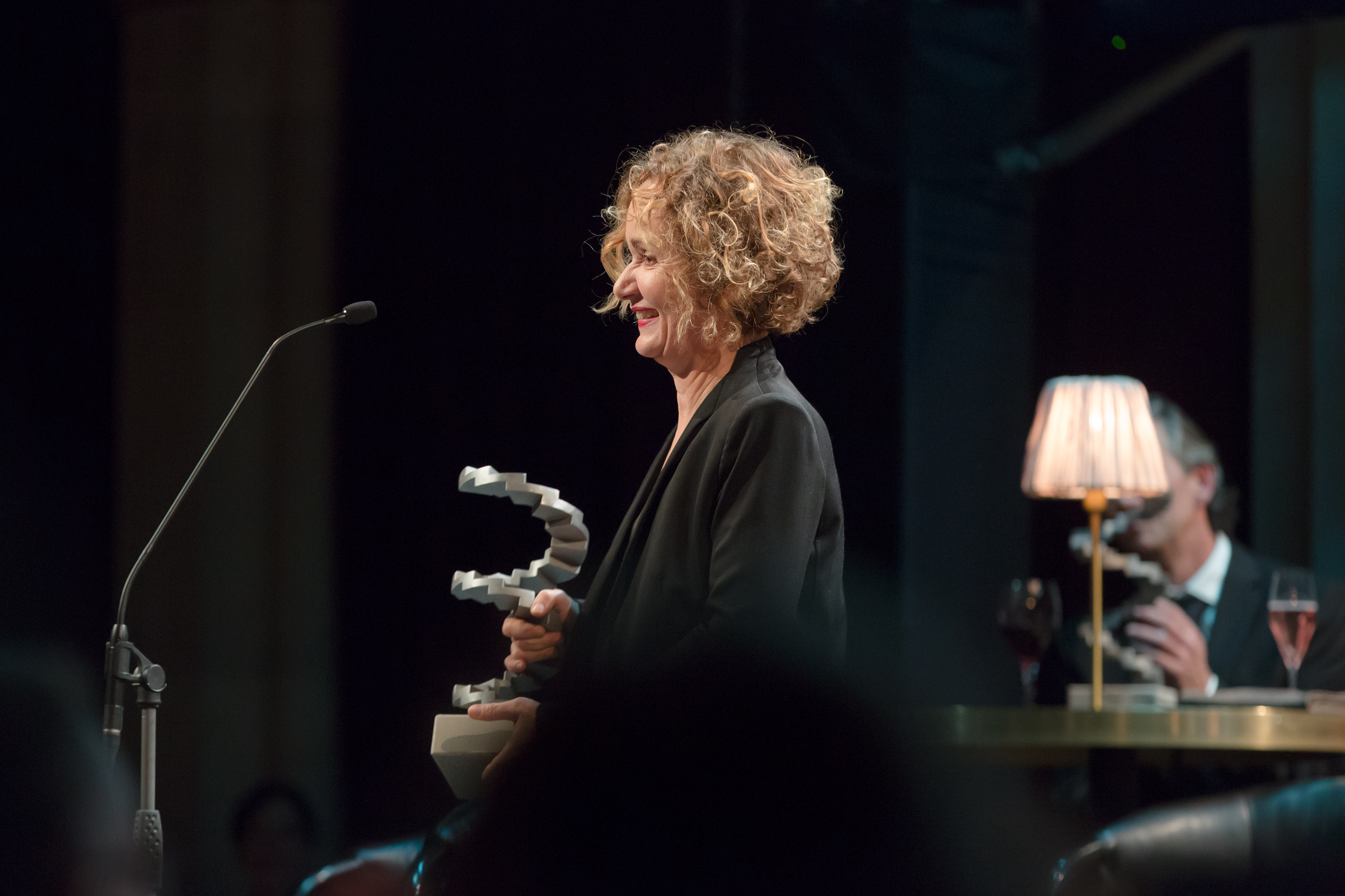 Austrian Film Awards 2017: Caterina Czepek - best costume design (Maikäfer flieg); Rathaus, Vienna, Austria.